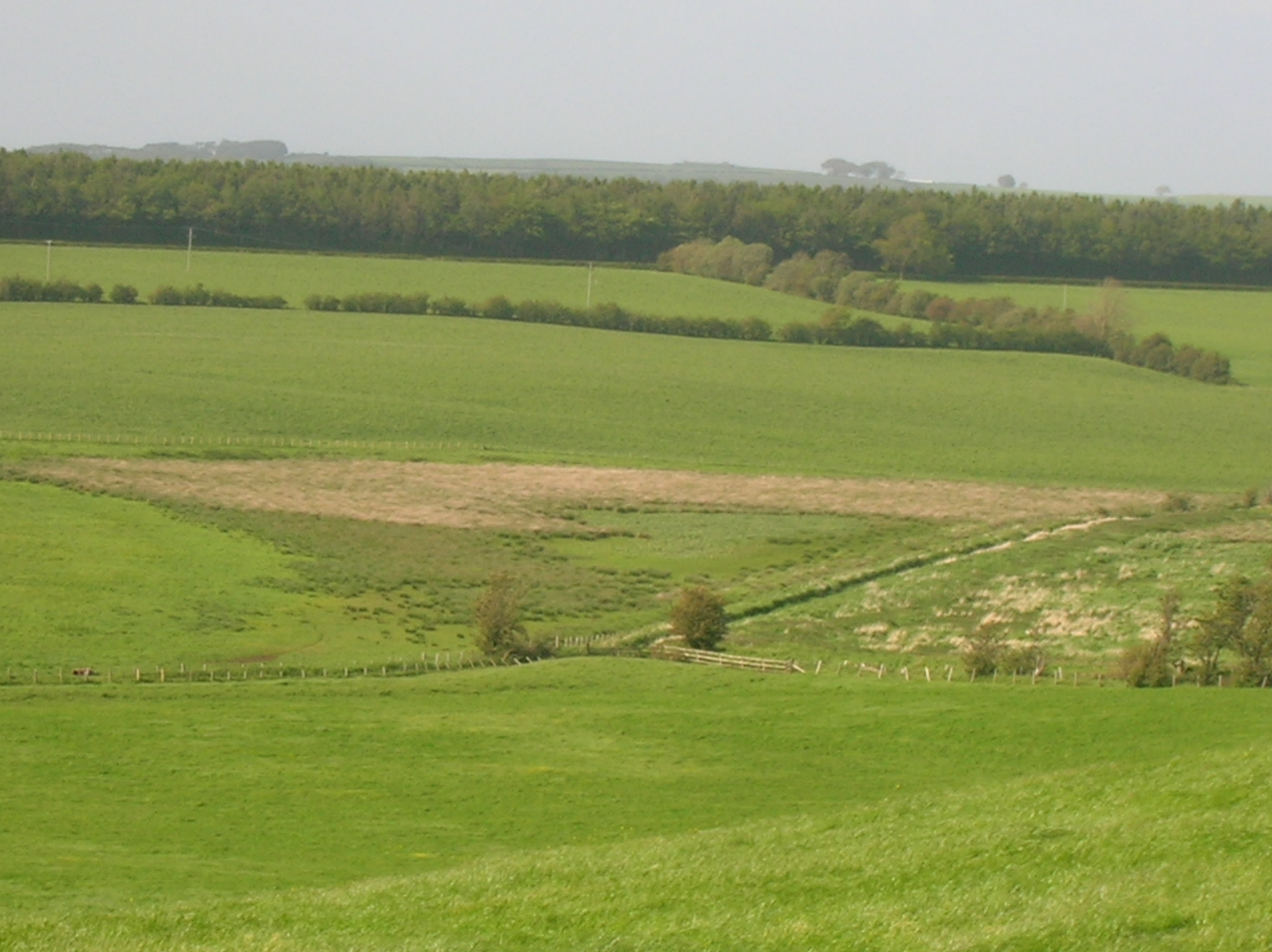 The site of the Loch of Stair, East Ayrshire, Scotland